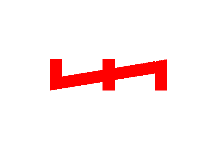 Mark of German 15 Panzer Division during WWII - Variant